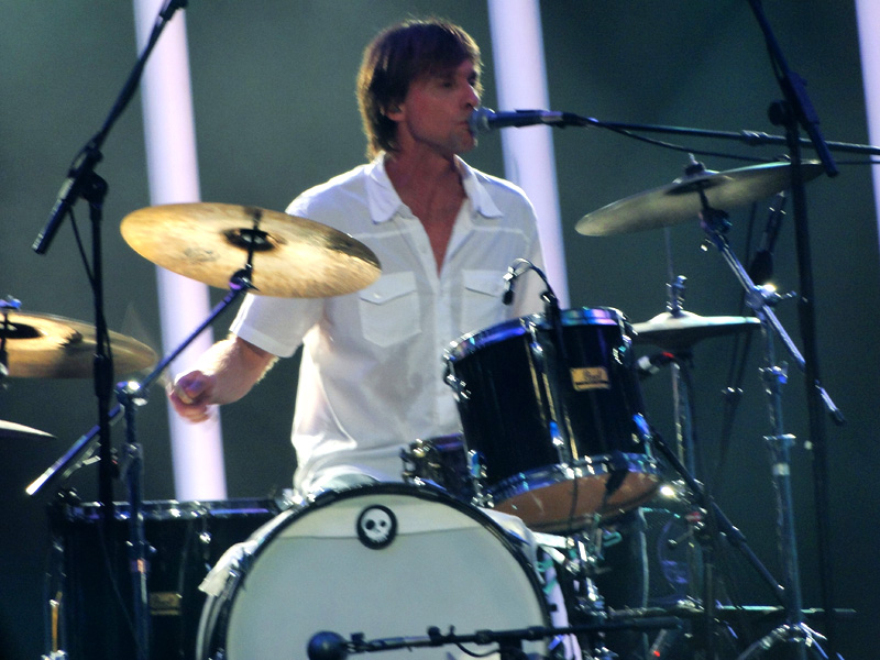 Marcelo Bonfá performing with Legião Urbana in May 2012.